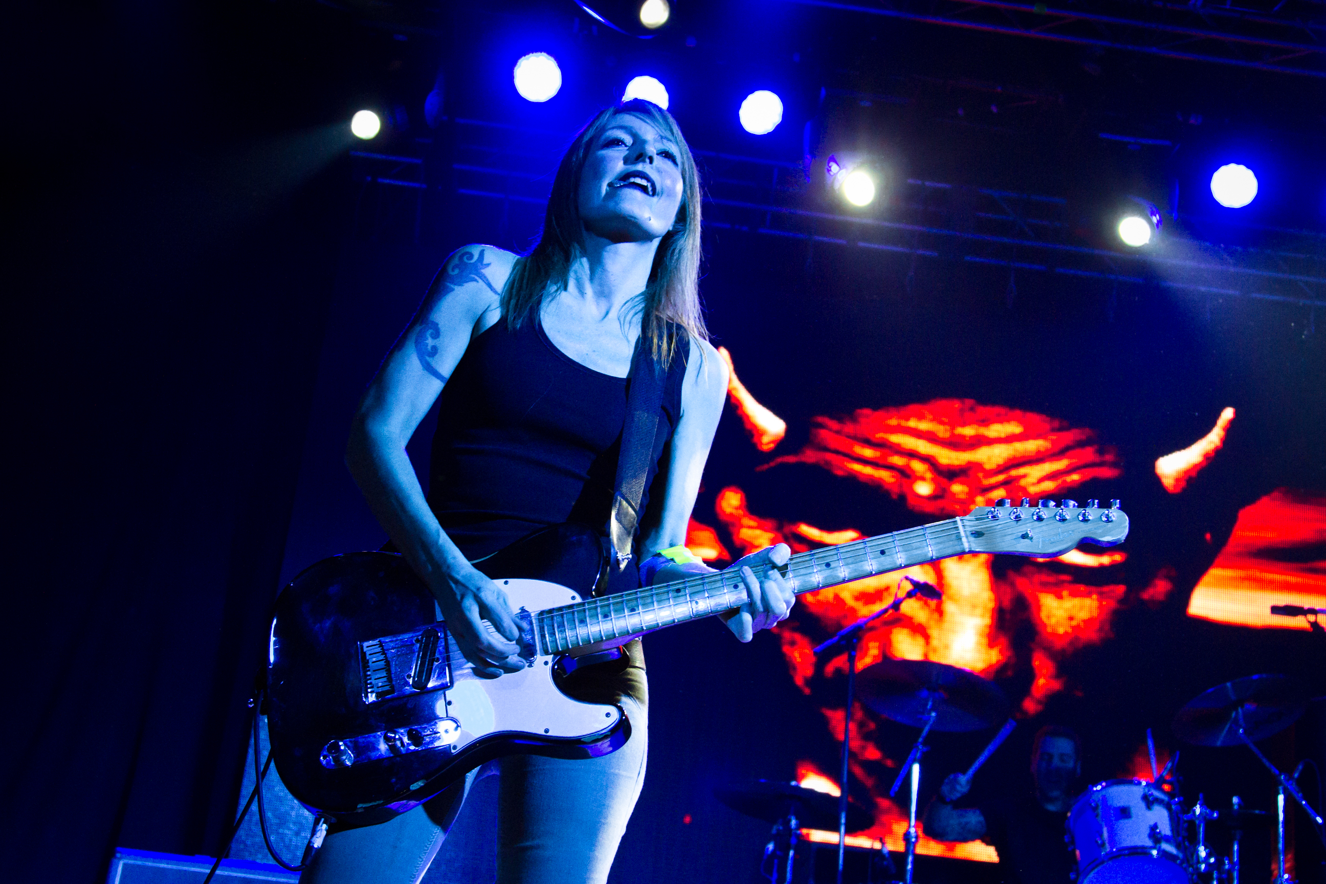 Spanish band Dover in 2014 during their Dover came to me tour.